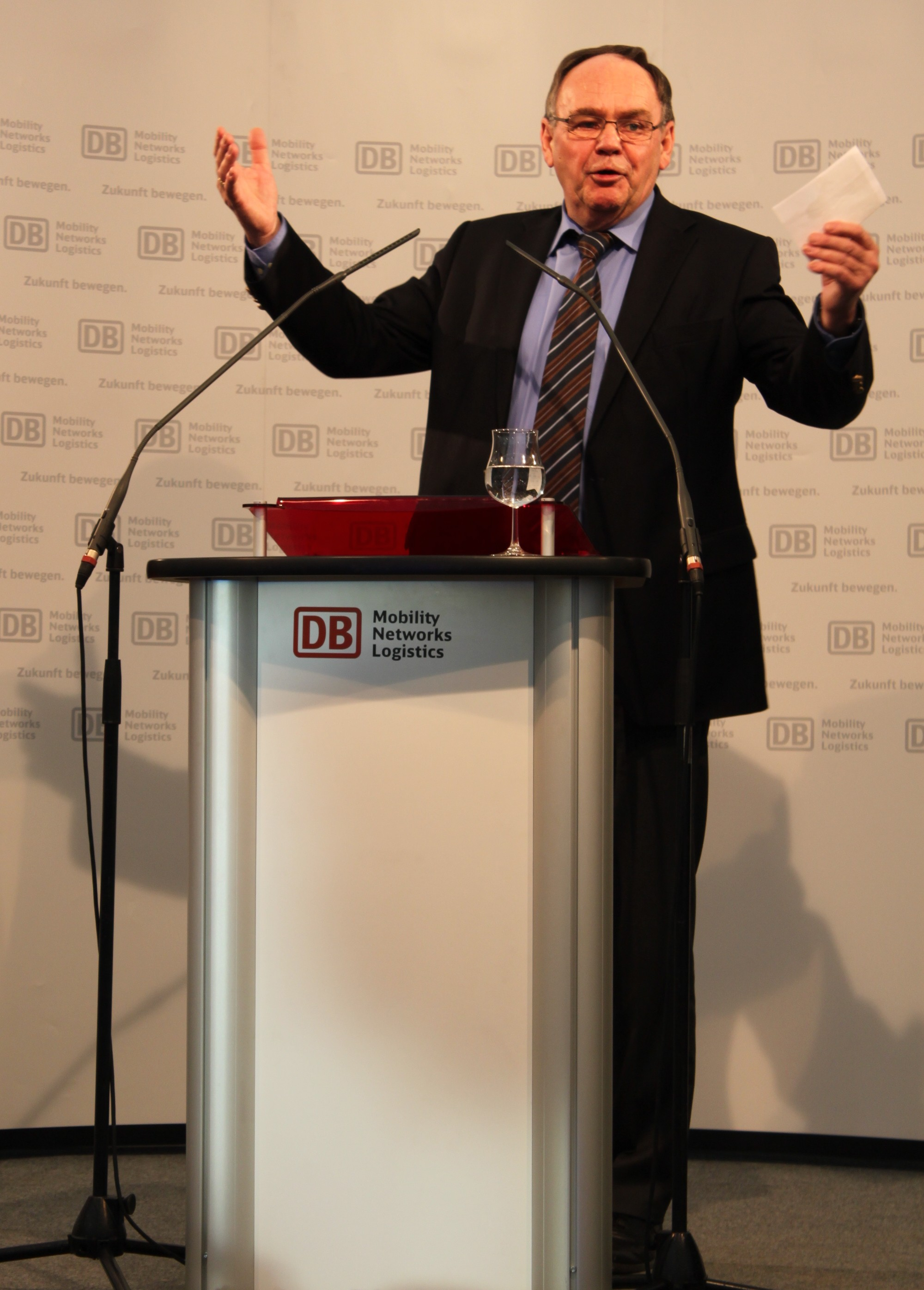 Karl-Heinz Daehre, transport minister in Saxony-Anhalt, delivers a speech at the "half-time" celebrations at the Erfurt-Halle/Leipzig high-speed railway line.